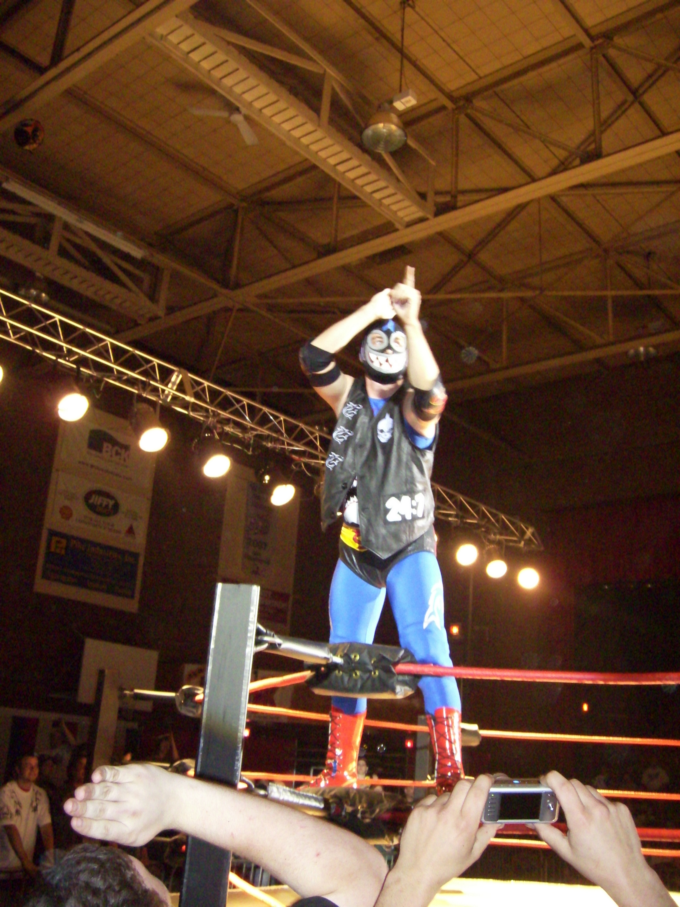 A photograph of Shark Boy taken May 08, 2008 at TNA's Live Event in Barre, VT.